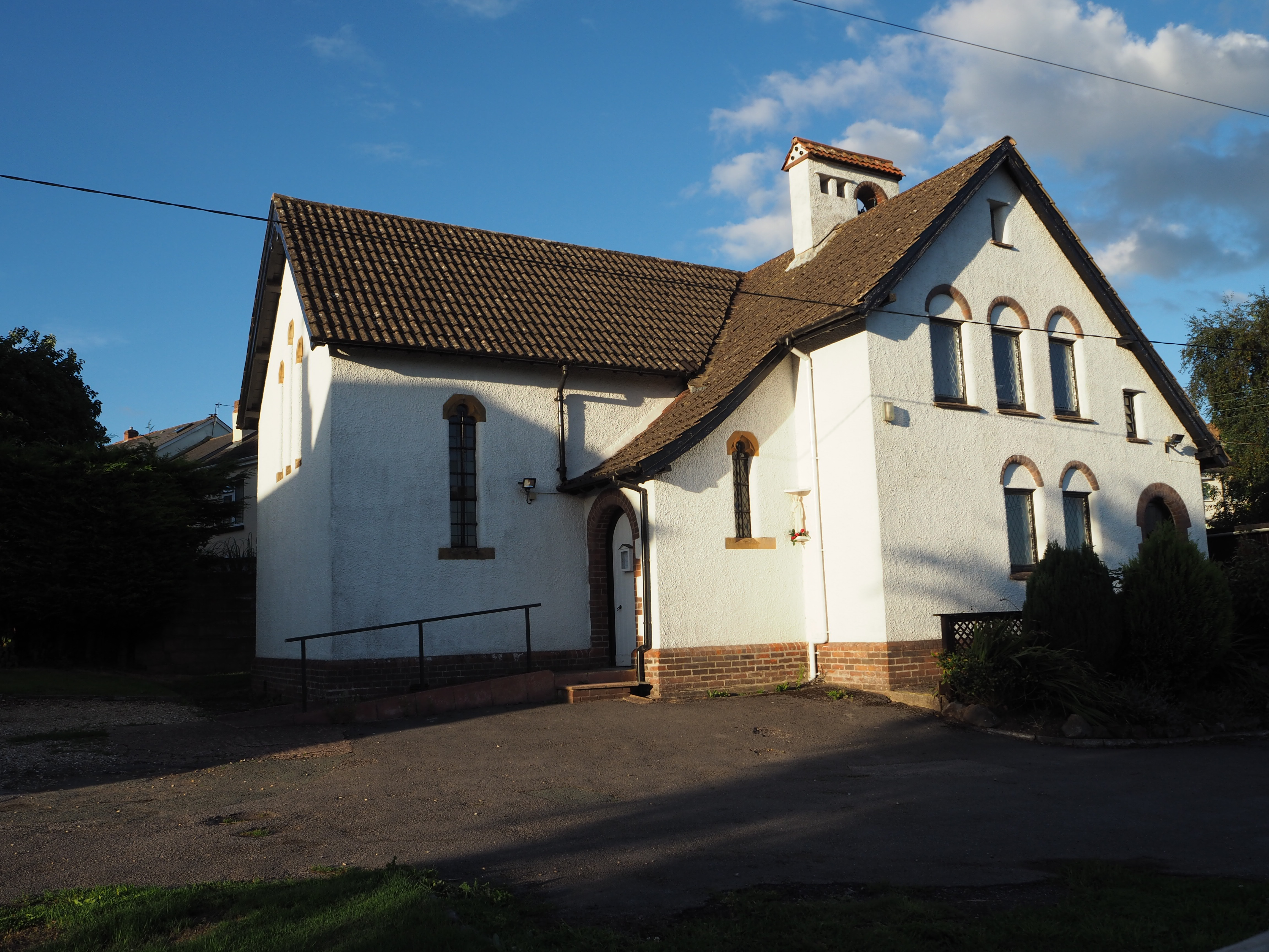 Roman Catholic church of St Boniface, Shortlands, Cullompton, Devon, designed by Manuel de las Casas and built in 1929